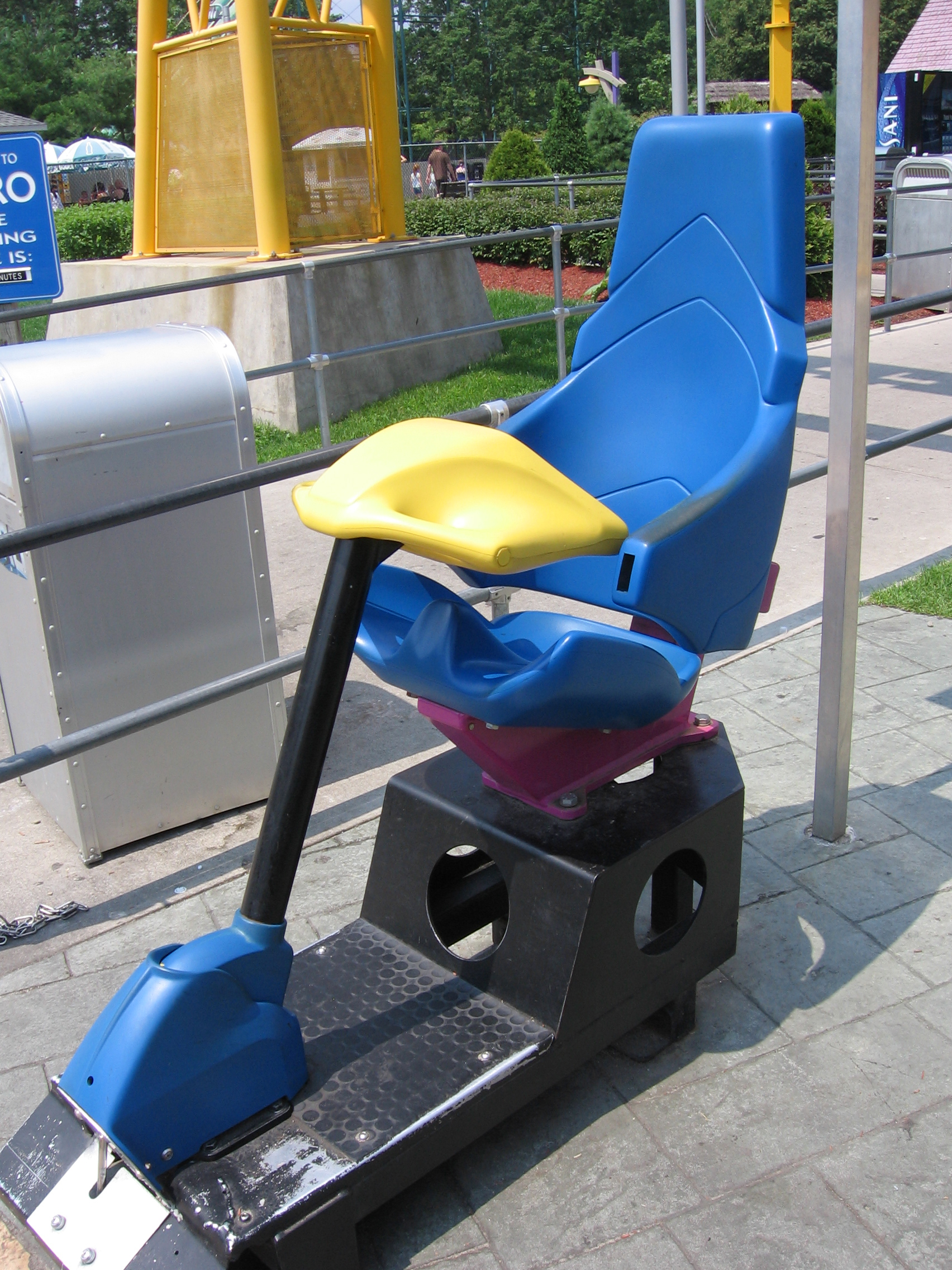 Nitro's test seat. The restraint is in the highest position that will allow the train to be dispatched.